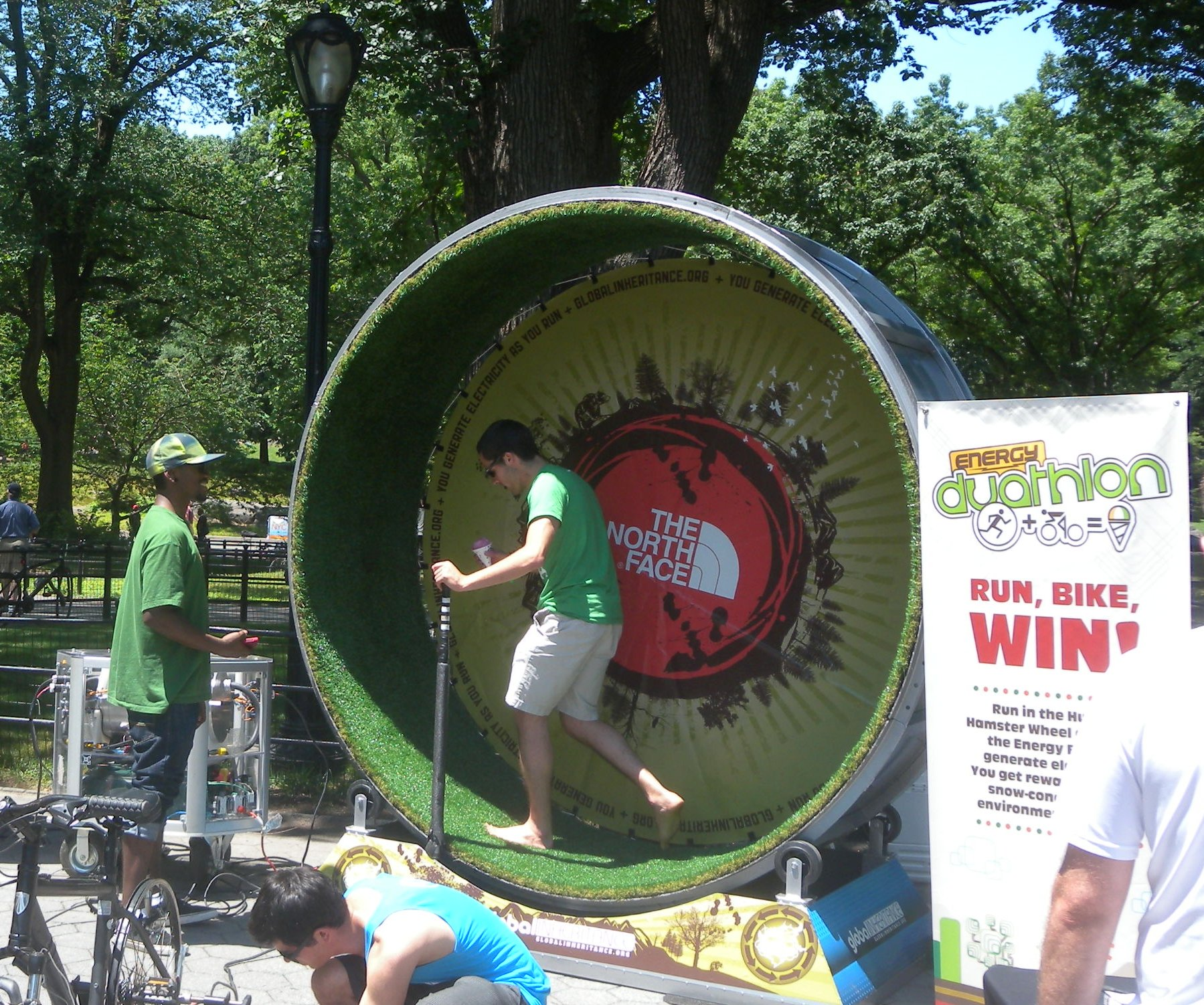 Looking west at The North Face display in Central Park on a sunny midday.